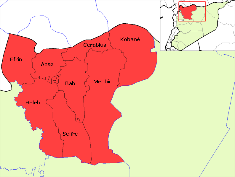 Map of the Districts within the Governorate of Aleppo — located in northern Syria. With district names in Kurdish.